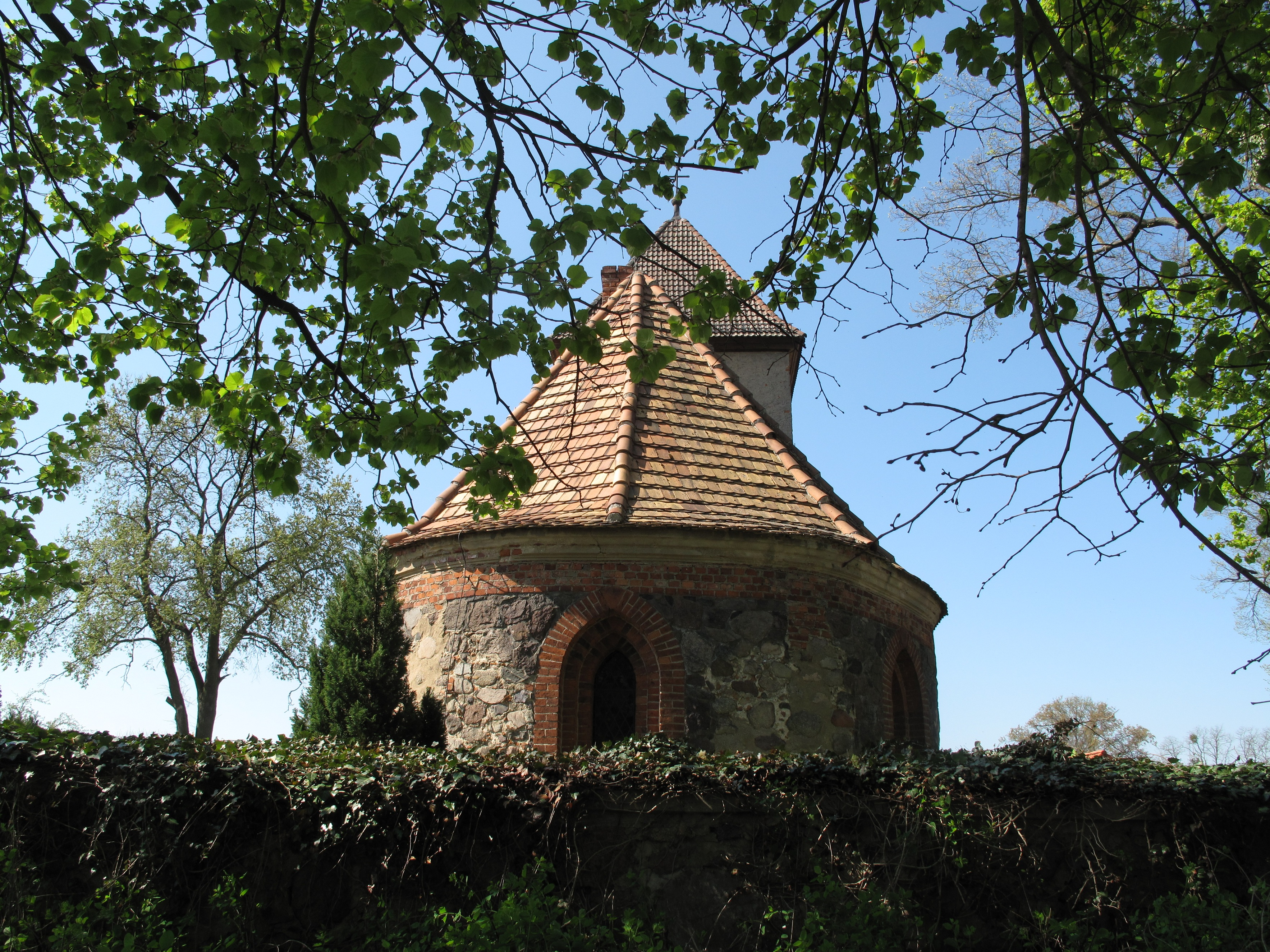 Listed village and Fieldstone church in Bollersdorf, a village of the municipality Oberbarnim in the District Märkisch-Oderland, Brandenburg, Germany.